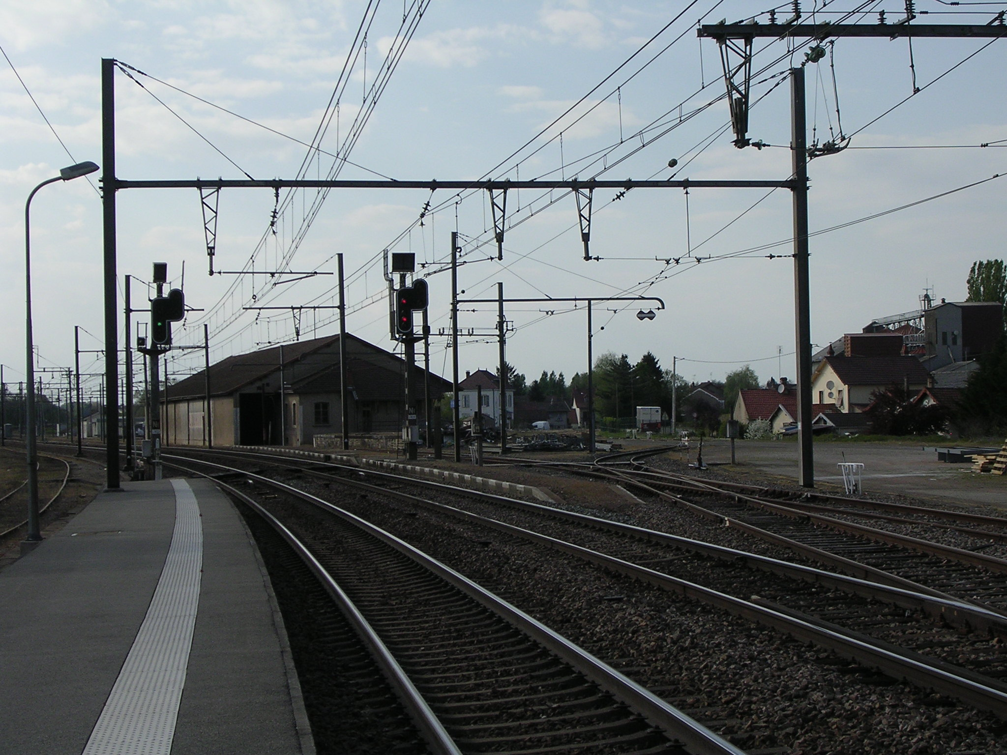 Louhans : Saône et Loire France